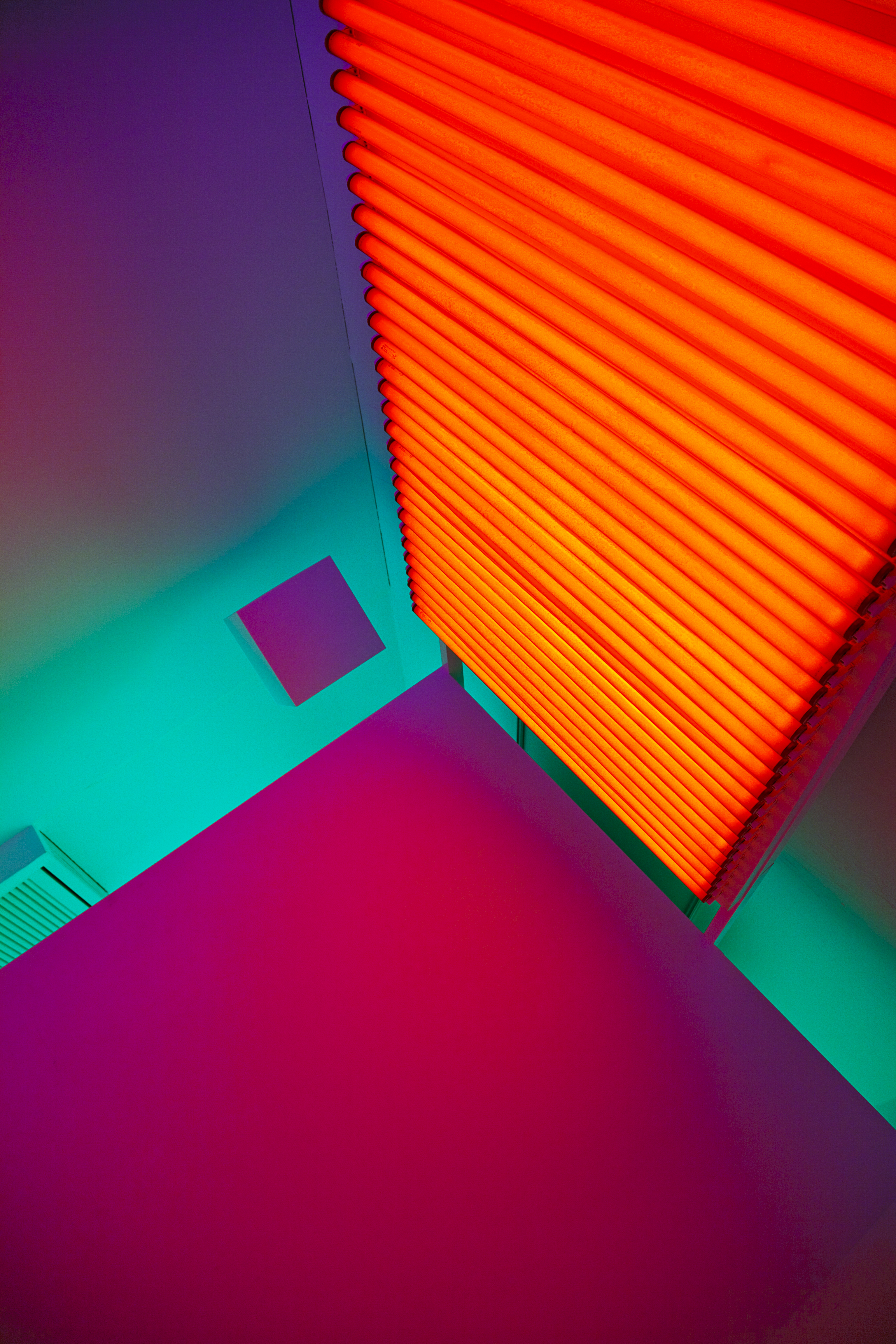 Cruz-Díez. Cuenca - Museum of Spanish Abstract Art. Castilla - La Mancha. Spain.